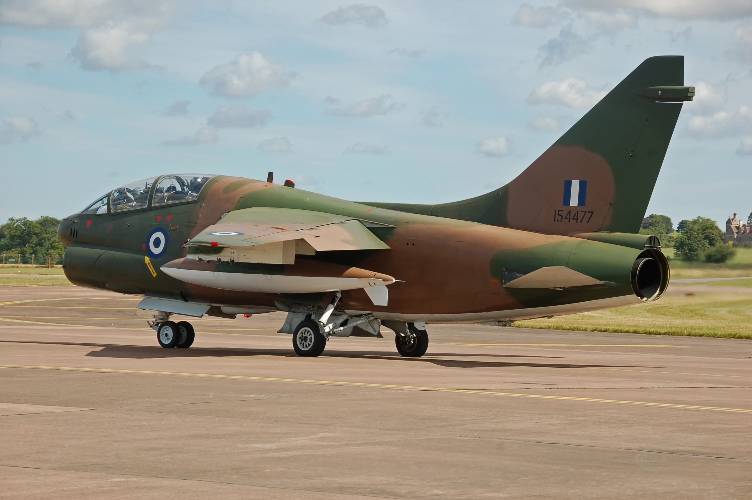 Greek Air Force LTV TA-7C Corsair II departs RAF Fairford, Gloucestershire, England, on 14th July 2014, after the Royal International Air Tattoo. LTV is Ling-Temco-Vought. (The file name has a typo, the aircraft is a 7C not a 7G).